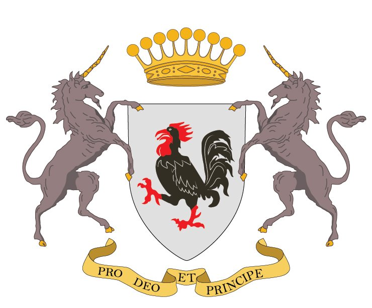 Coat of Arms of the Polier Family